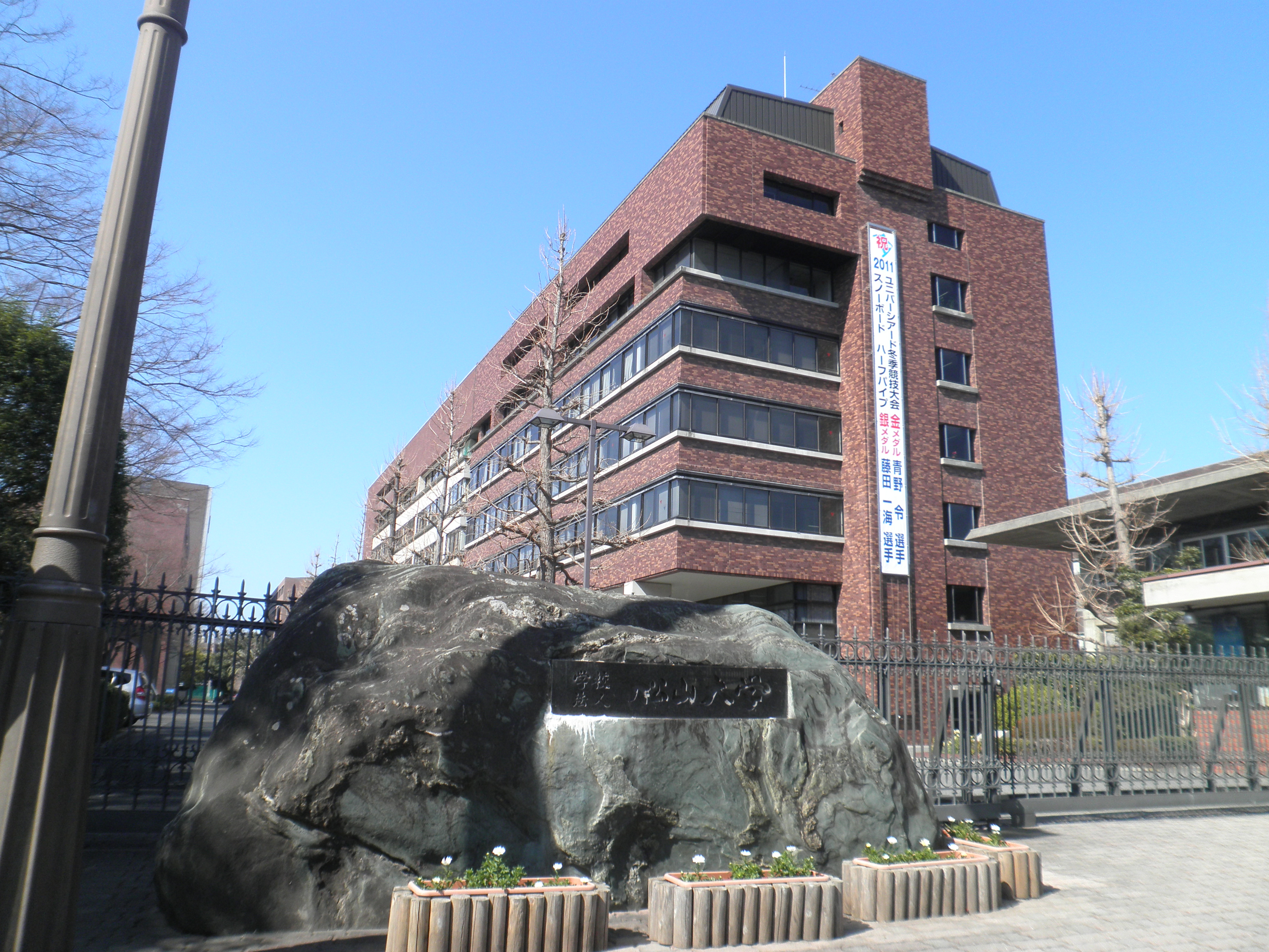 The main entrance to Matsuyama University located in Matsuyama, Ehime, Japan.